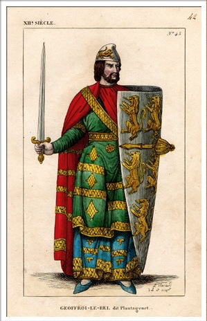 Portrait of Geoffrey V Plantagenet (1113-1151)